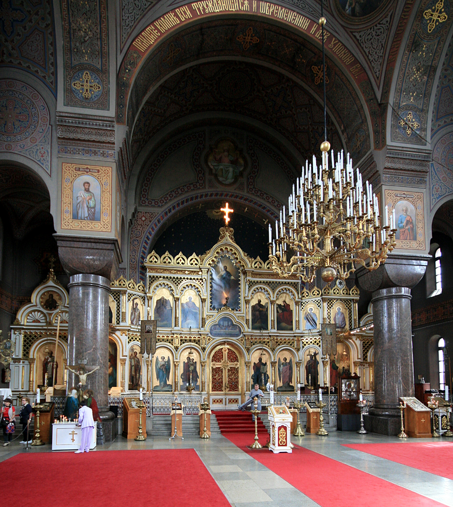 Iconostasis of Uspenski cathedral, Helsinki, Finland.